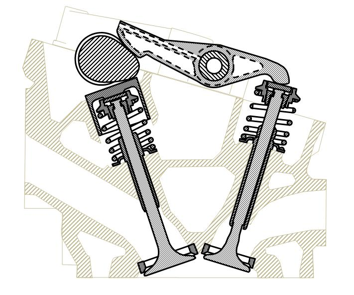 A sketch of a staggered section of a Triumph Dolomite Sprint cylinder head, highlighting the valve gear.